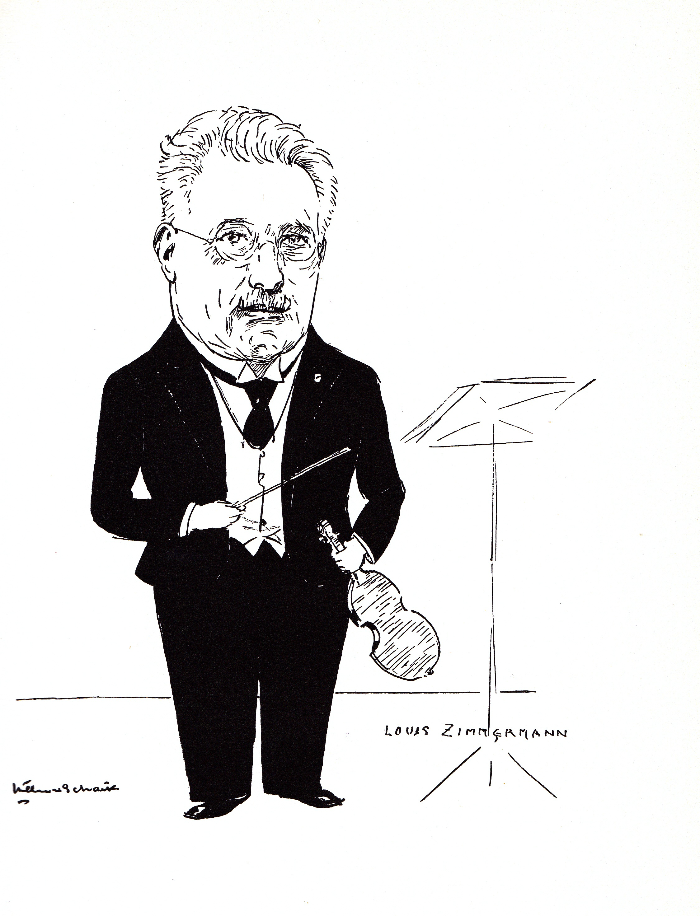 Louis Zimmermann, Dutch violinist. Sketch drawn by Willem van Schaik (1876-1938)